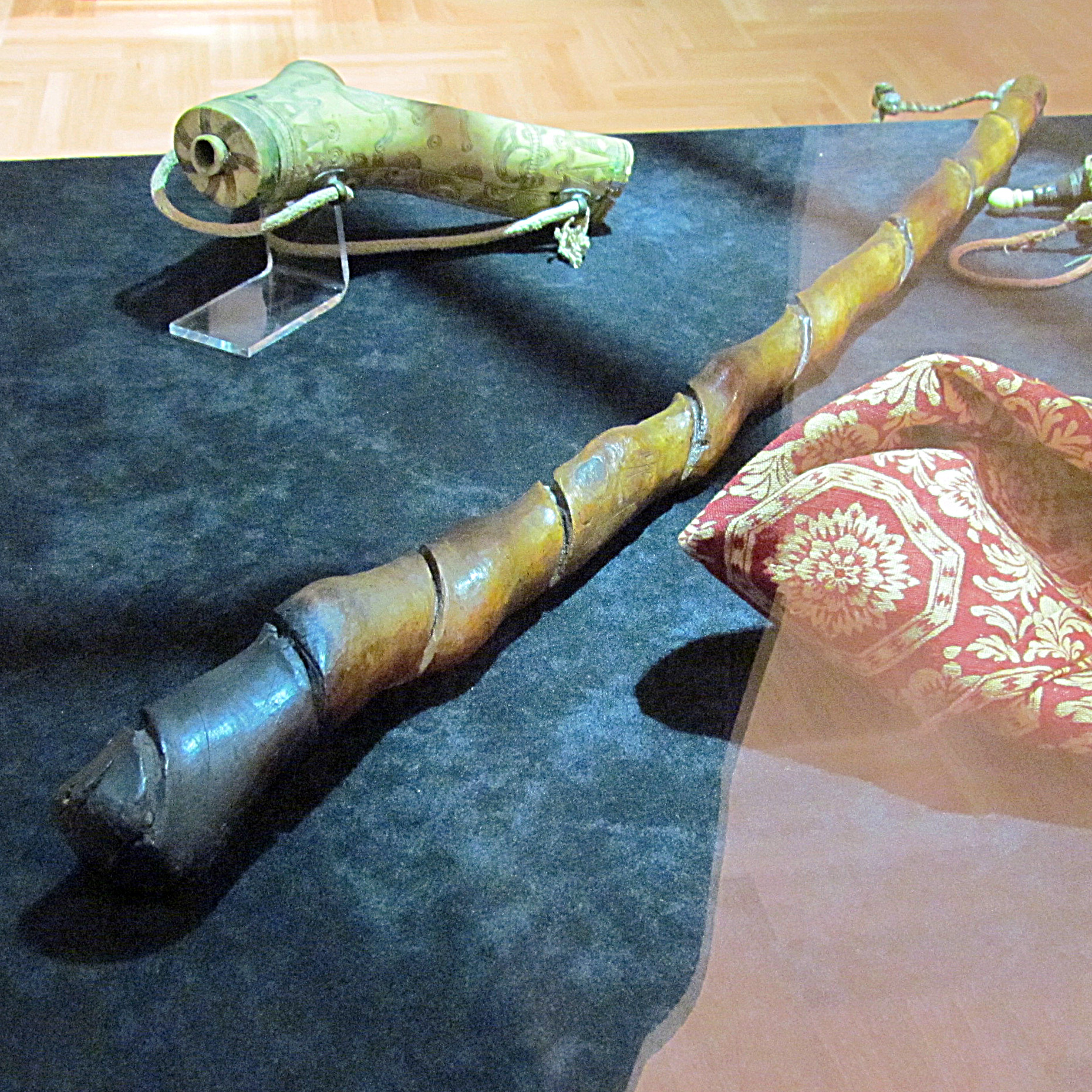 Karađorđe's club, 19.c, Historical Museum of Serbia